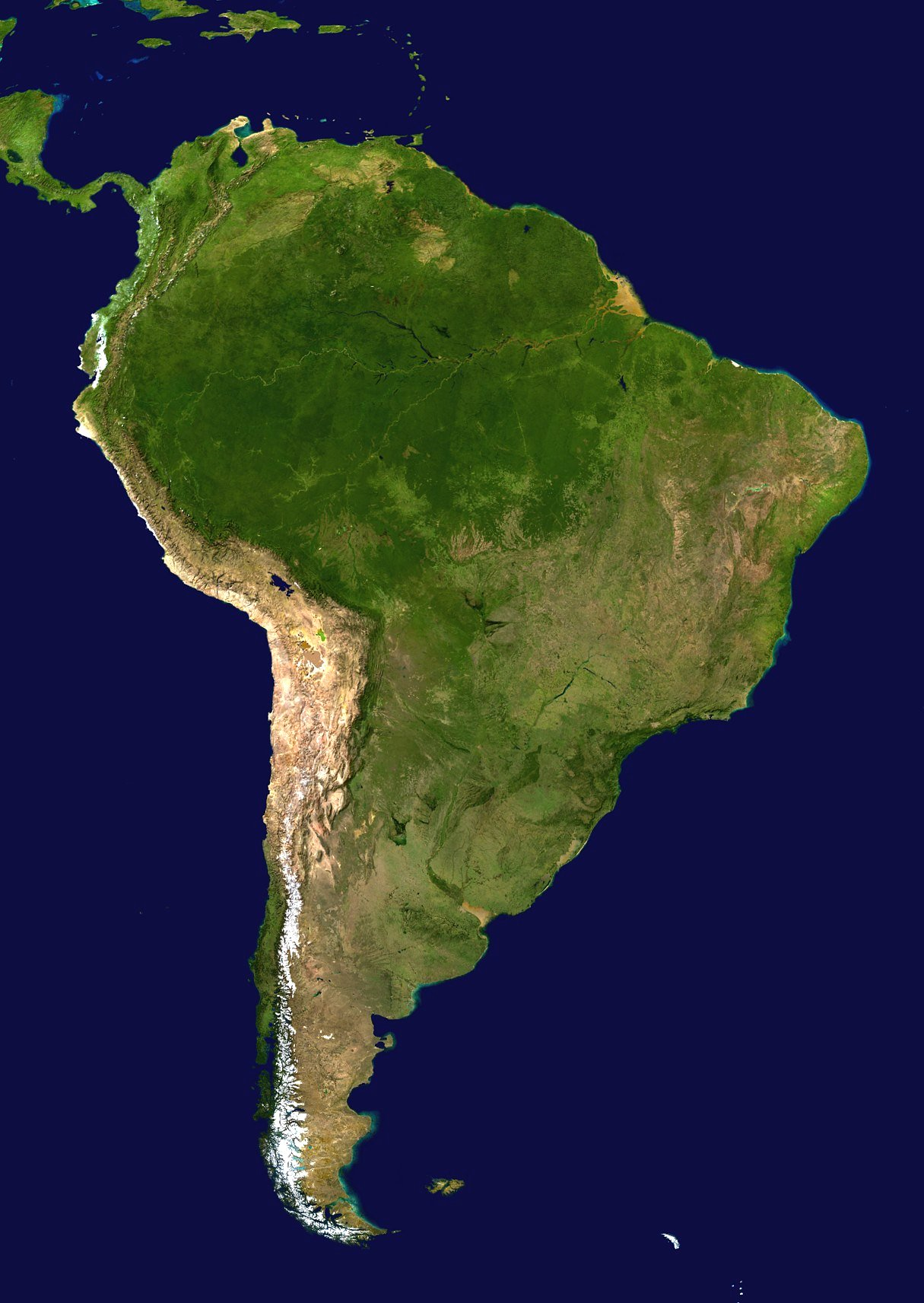 A composed satellite photograph of South America in orthographic projection This is NASA "Blue Marble" image applied as a texture on a sphere using Art of Illusion program. The observer is centered at (20° S, 60° W), at Moon distance above the Earth.